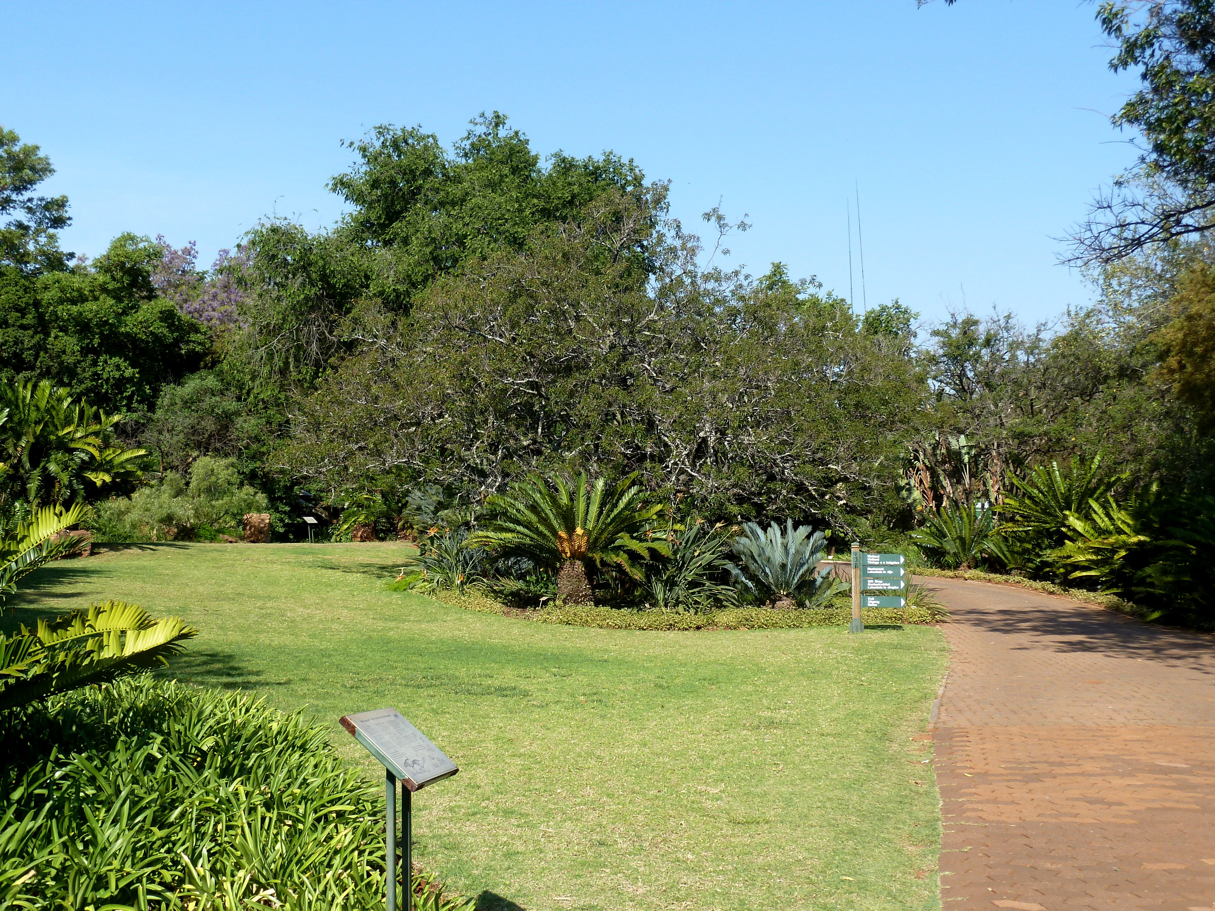 Part of the Cycad garden at the Pretoria National Botanical Garden, South Africa